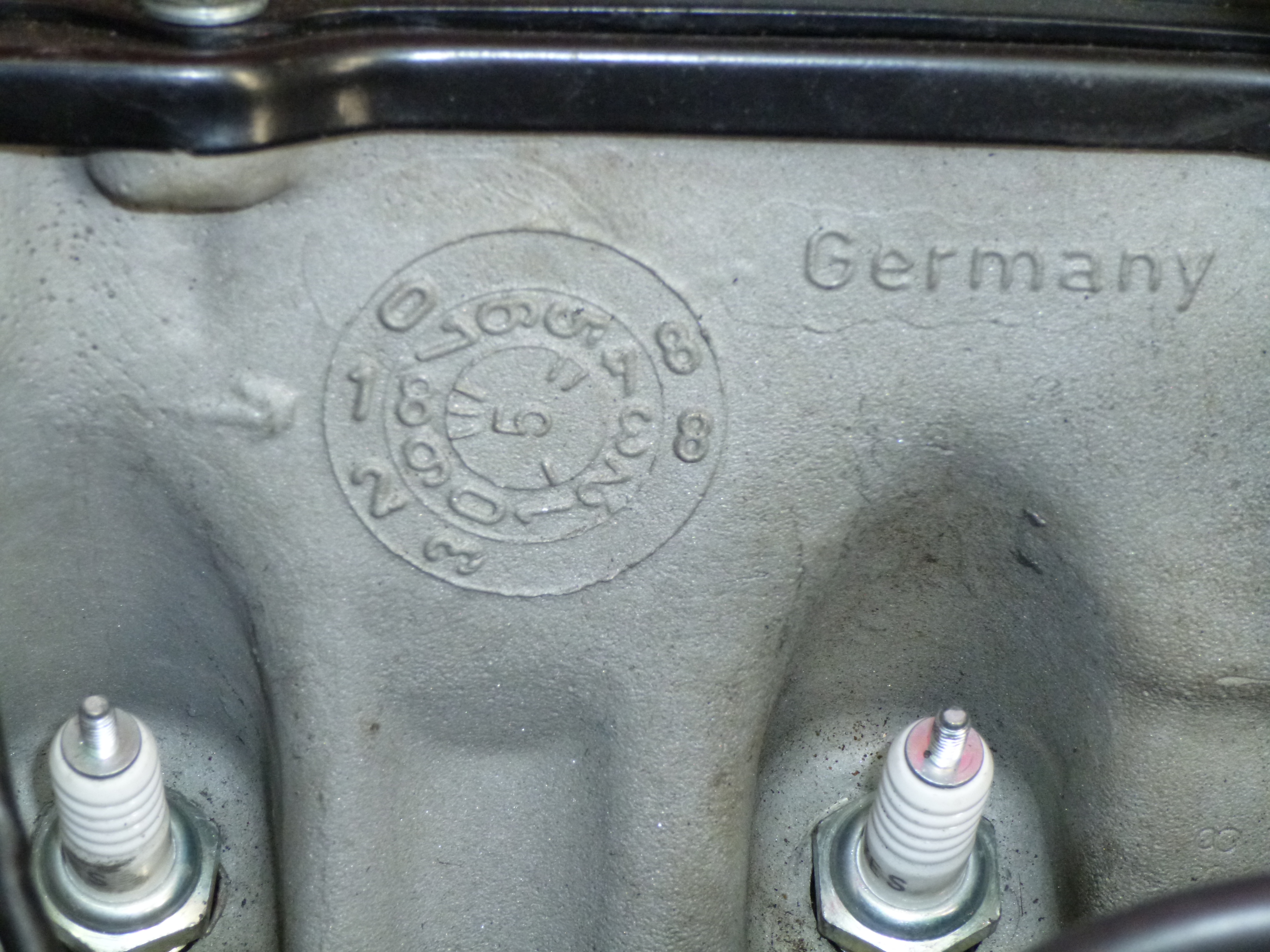 Casting clock on a motor car cylinder head (VW Golf GTI 1,6l)